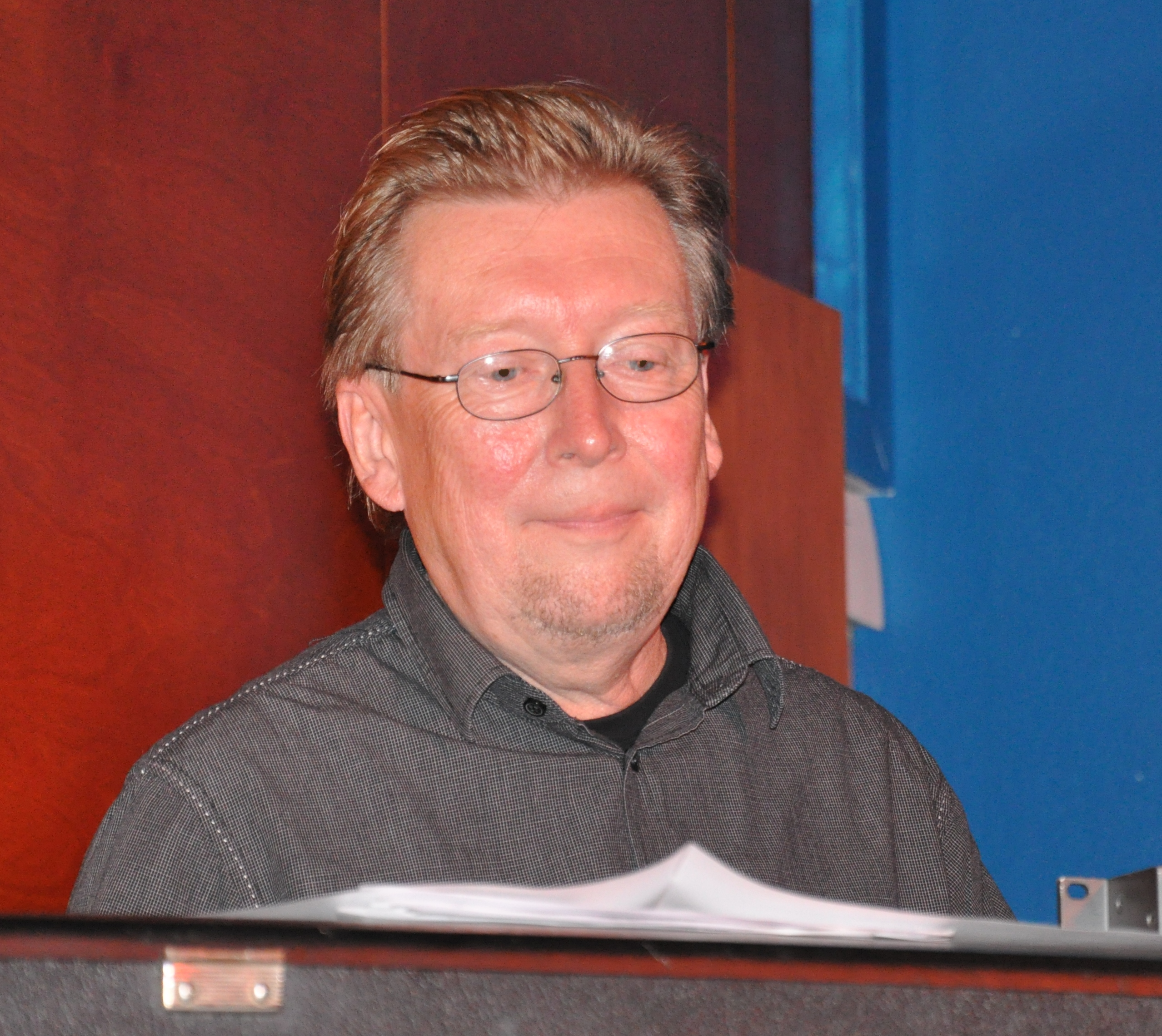 Finnish jazz pianist and composer Olli Ahvenlahti performing at restaurant Dubrovnik, in Helsinki, Finland 2009.